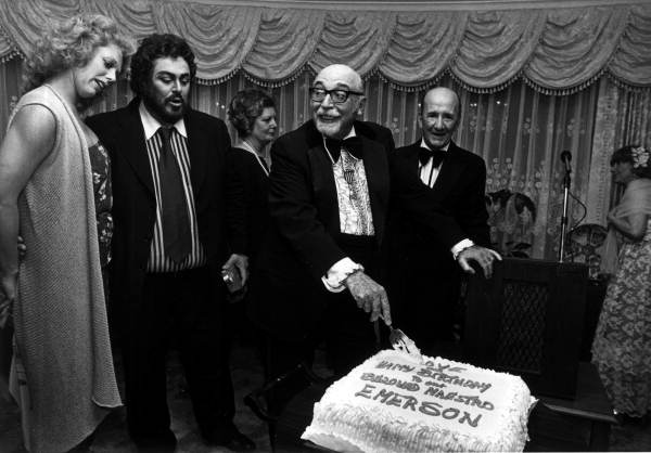 Local call number: PR21644b Title: [Luciano Pavarotti, at left, watching as Fort Lauderdale Symphony music director Emerson Buckley cuts his birthday cake] Personal Author: Erickson, Roy. Date: 1981. Physical descrip: 1 photoprint: b&w; 5 x 7 in. Series Title: (Print Collections. N2006-13, Roy Erickson collection.) General note: The photographer, Roy Erickson, was a professional photographer in the Ft. Lauderdale area and was affiliated with the Best of Broward magazine for over 10 years. Repository: State Library and Archives of Florida, 500 S. Bronough St., Tallahassee, FL 32399-0250 USA. Contact: 850.245.6700. Persistent URL